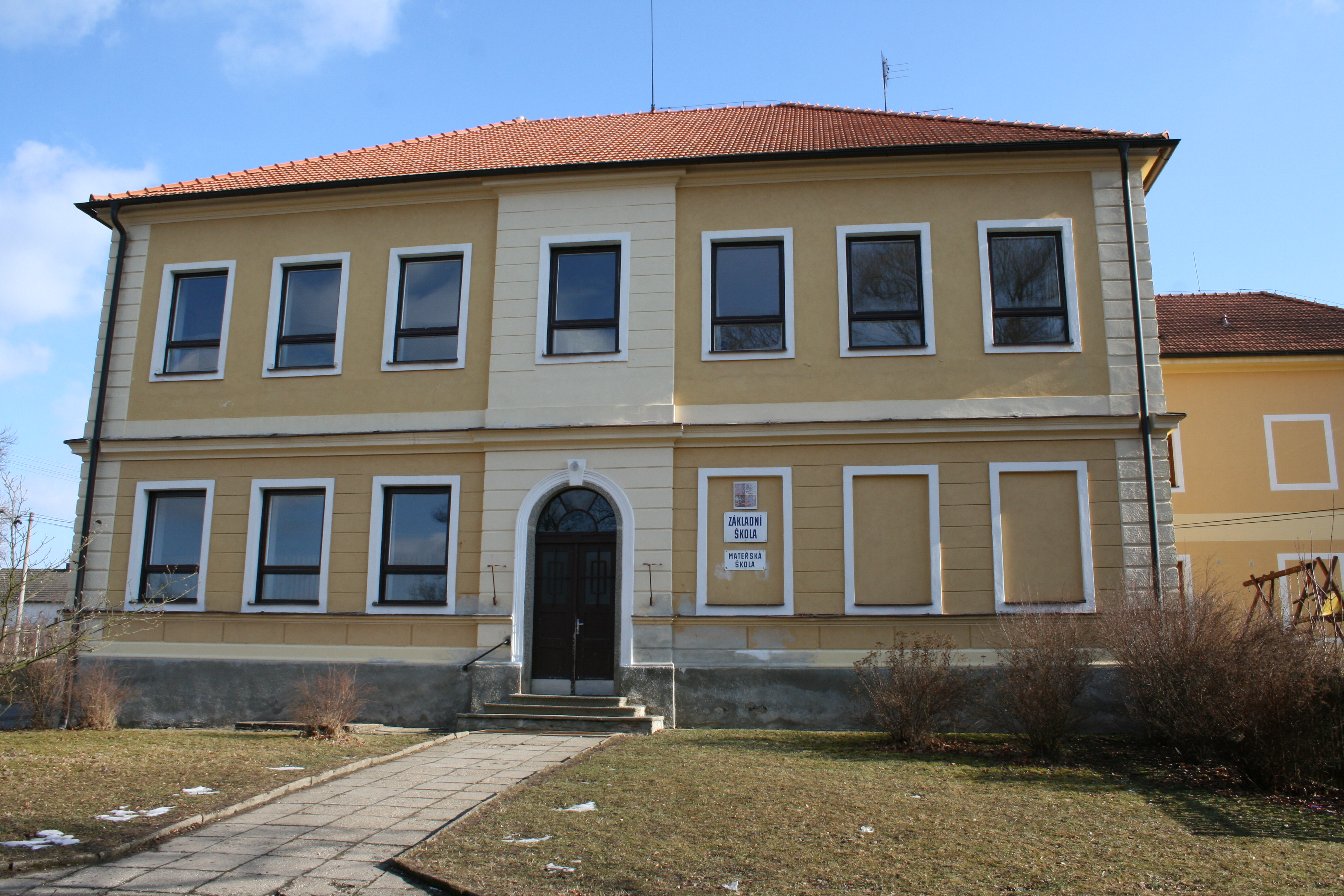 Village Sudoměřice u Bechyně, Tábor District, Czech Republic. School.